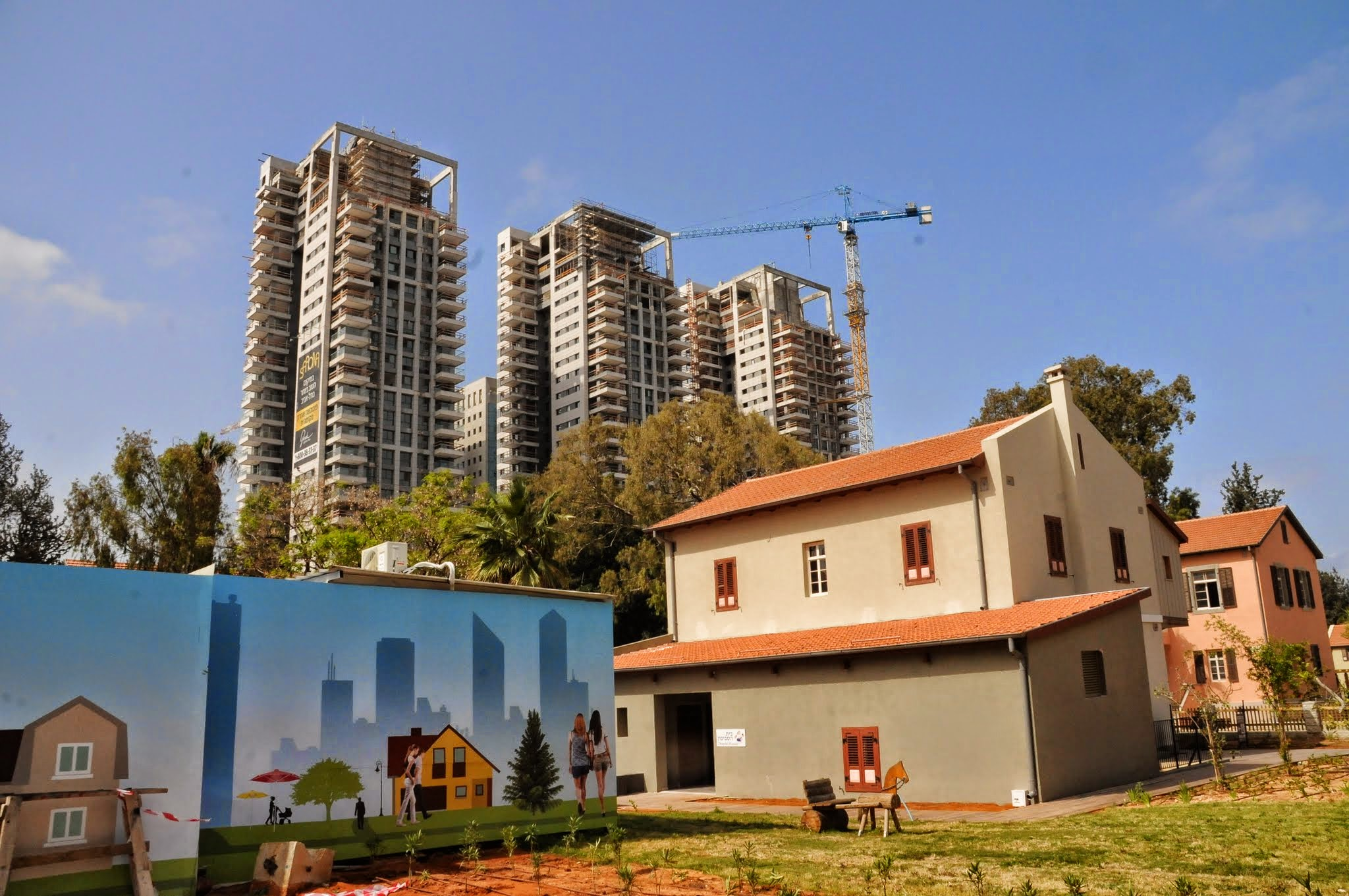 Architecture of Israel